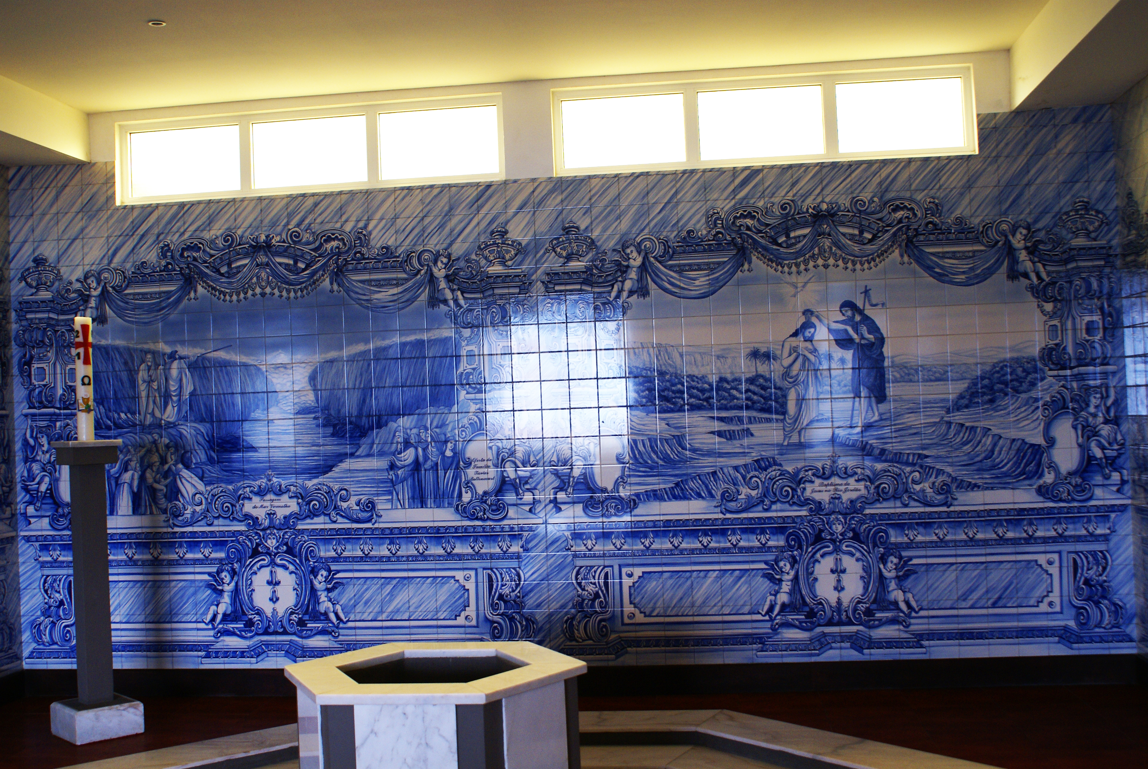 Baptismal fountain surrounded by azulejos, Church of Santa Bárbara, Cedros, Horta, Faial (Azores), Portugal